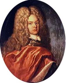 Potrait of Carl Adolph von Plessen (1678-1758)